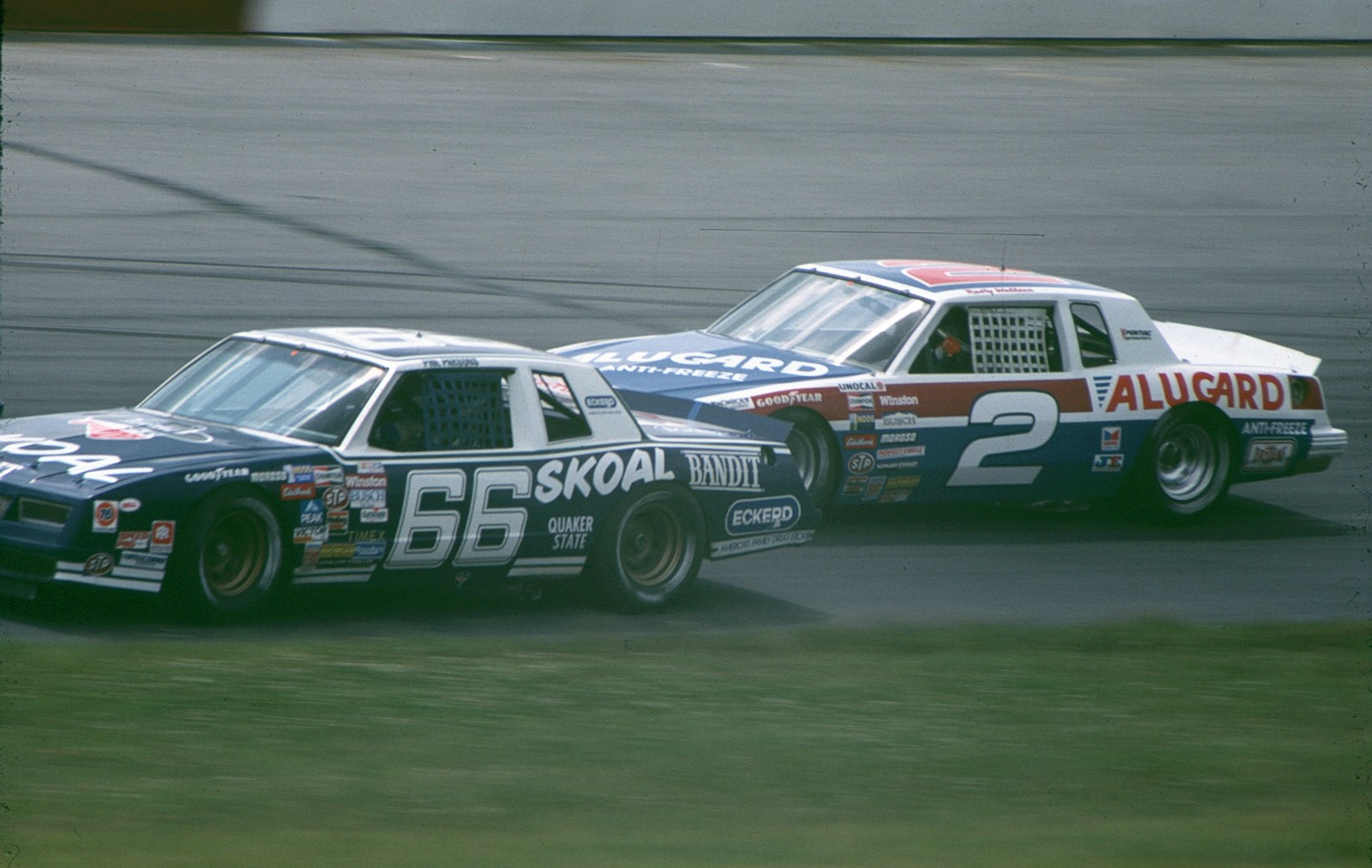 NASCAR drivers Phil Parsons in the #66 Jackson Bros. Motorsports and Rusty Wallace in the #2 Cliff Stewart-owned racecar. Photo by Ted Van Pelt from 1985.